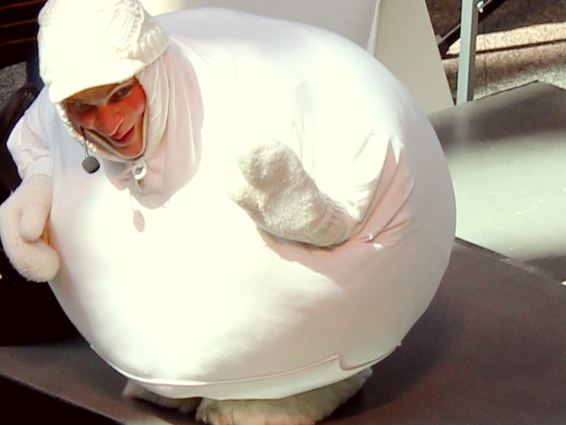 The character "Munamies" ("Eggman") created and performed by the Finnish actor Riku Nieminen in the shopping mall "Itis" in Eastern Helsinki, Finland.